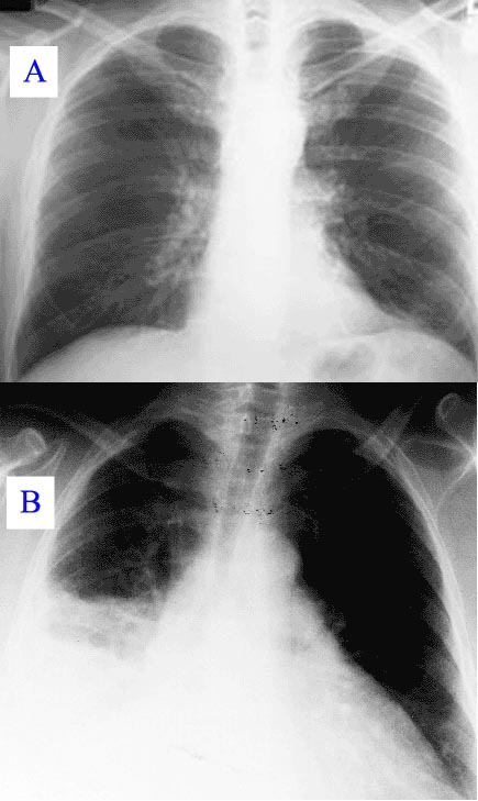 Combination of two x-rays found on the two websites FDA website with normal chest x-ray CDC website documenting Q fever pneumonia All editing performed by me and released into public domain